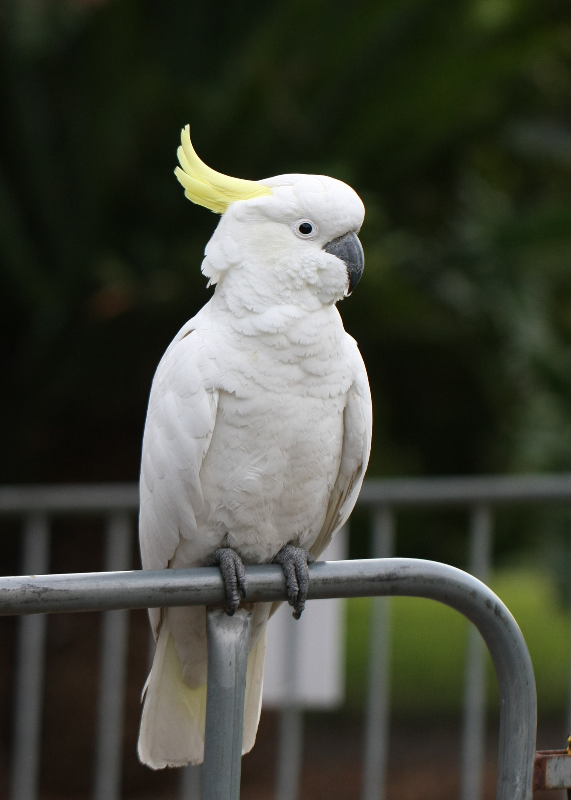 Sulphur-crested Cockatoo